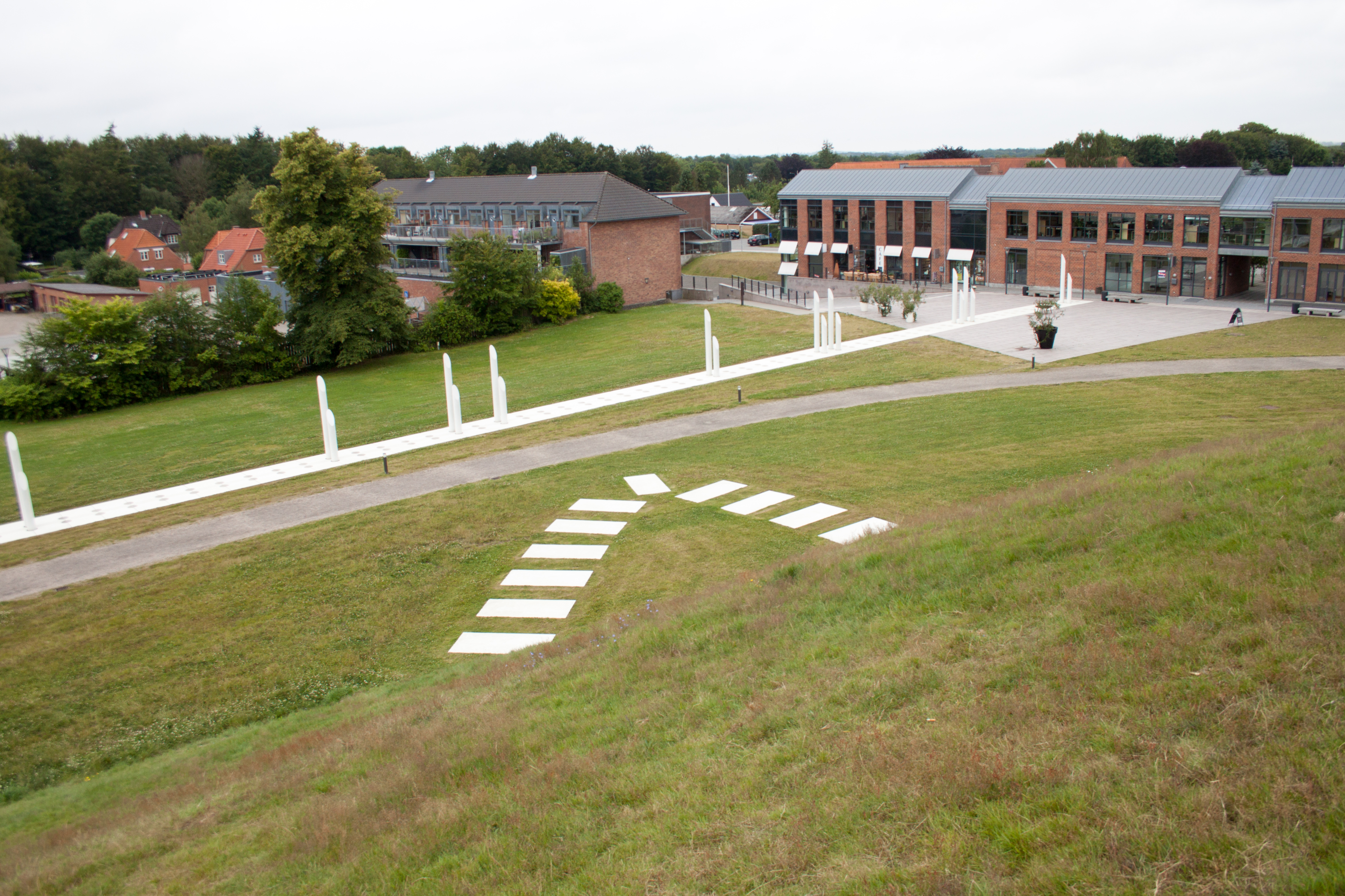 View from the southern mound of Jellinglabel QS:Len,"View from the southern mound of Jelling" label QS:Lhu,"Látkép a déli halomról"